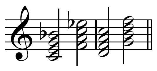 Montgomery-Ward bridge in C (I7-IV7-ii7-V7). Created by Hyacinth (talk) 07:31, 12 December 2010 using Sibelius 5.